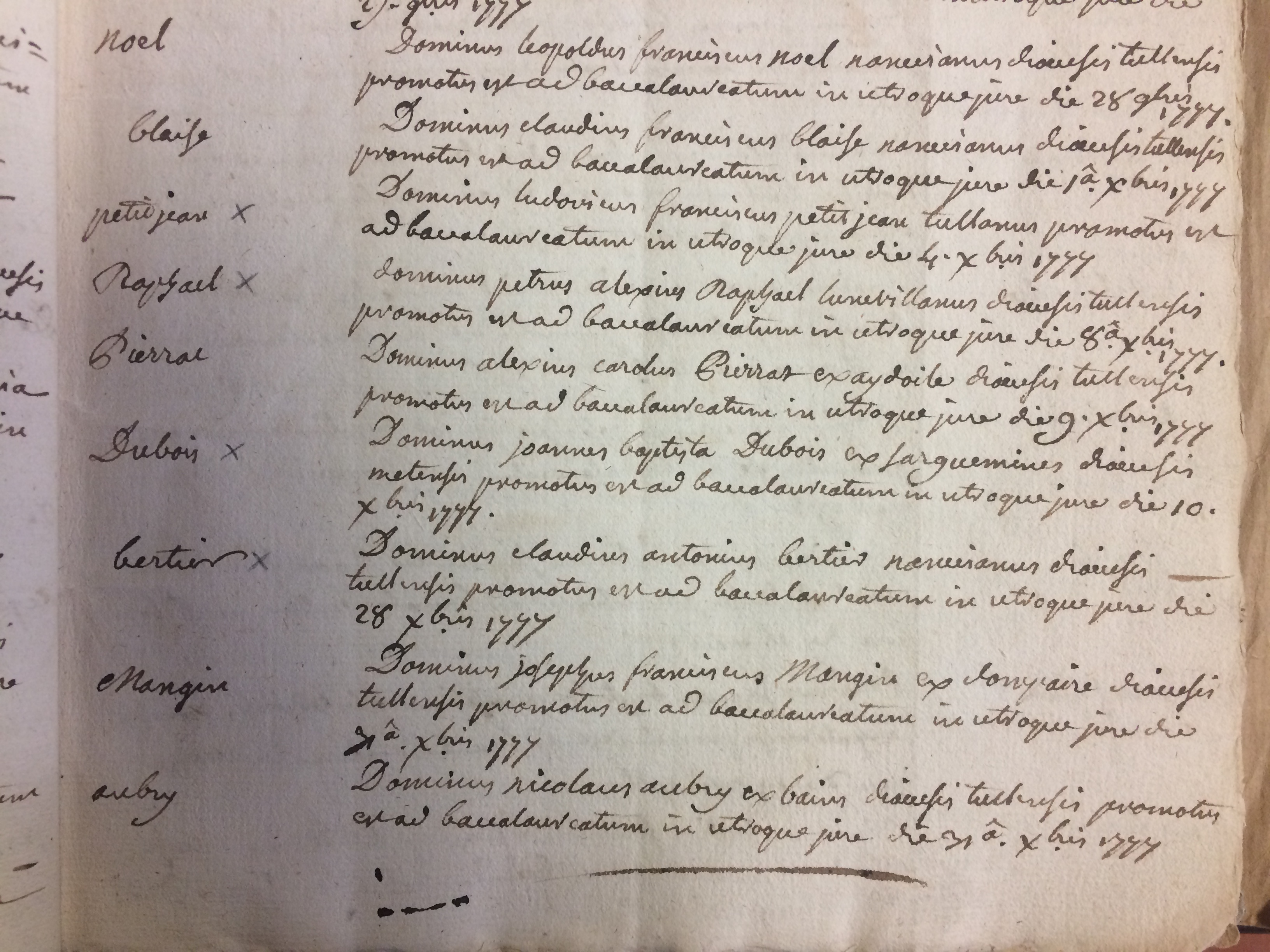 High School Graduation in 1777